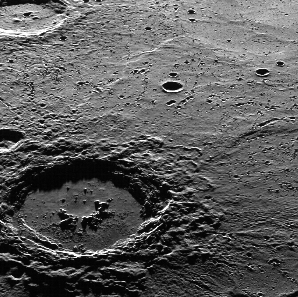 This dramatic image features Hokusai in the foreground, famous for its extensive set of rays, some of which extend for over a thousand kilometers across Mercury's surface. The extensive, bright rays indicate that Hokusai is one of the youngest large craters on Mercury. Check out previously featured images to see high-resolution details of its central peaks, rim and ejecta blanket, and impact melt on its floor. This image was acquired as part of MDIS's high-incidence-angle base map. The high-incidence-angle base map complements the surface morphology base map of MESSENGER's primary mission that was acquired under generally more moderate incidence angles. High incidence angles, achieved when the Sun is near the horizon, result in long shadows that accentuate the small-scale topography of geologic features. The high-incidence-angle base map was acquired with an average resolution of 200 meters/pixel. The MESSENGER spacecraft is the first ever to orbit the planet Mercury, and the spacecraft's seven scientific instruments and radio science investigation are unraveling the history and evolution of the Solar System's innermost planet. During the first two years of orbital operations, MESSENGER acquired over 150,000 images and extensive other data sets. MESSENGER is capable of continuing orbital operations until early 2015. Credit: NASA/Johns Hopkins University Applied Physics Laboratory/Carnegie Institution of Washington NASA image use policy. NASA Goddard Space Flight Center enables NASA’s mission through four scientific endeavors: Earth Science, Heliophysics, Solar System Exploration, and Astrophysics. Goddard plays a leading role in NASA’s accomplishments by contributing compelling scientific knowledge to advance the Agency’s mission. Follow us on Twitter Like us on Facebook Find us on Instagram